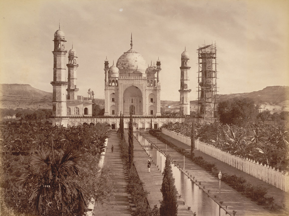 Bibi ka Makbara 1880s Aurangabad